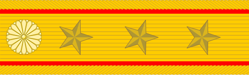 Generalissimo of Japan rank insignia. This rank was held by the Emperor.